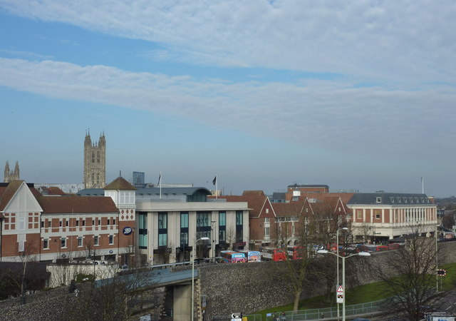 View of the city from Augustine House Upper Bridge Street can just be seen in the foreground, with the road under the bridge leading to the bus station. Beyond that is the Whitefriars shopping precinct and, in the distance, Canterbury Cathedral.